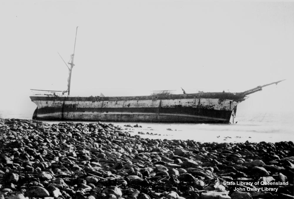 Wreck of the 1,242 GRT three-masted sailing ship Aagot, formerly Firth of Clyde, on Wardang Island, South Australia, in 1907. (From description supplied with photograph). Dobie & Co of Govan, Scotland built her in 1882 as the square-rigger Firth of Clyde for James Spencer & Co of Glasgow. Herman Jacobsen of Sarpsborg, Norway bought her in 1904 and had her converted into a barque. On 12 October 1907 she ran aground on Wardang Island in the Spencer Gulf and was wrecked.